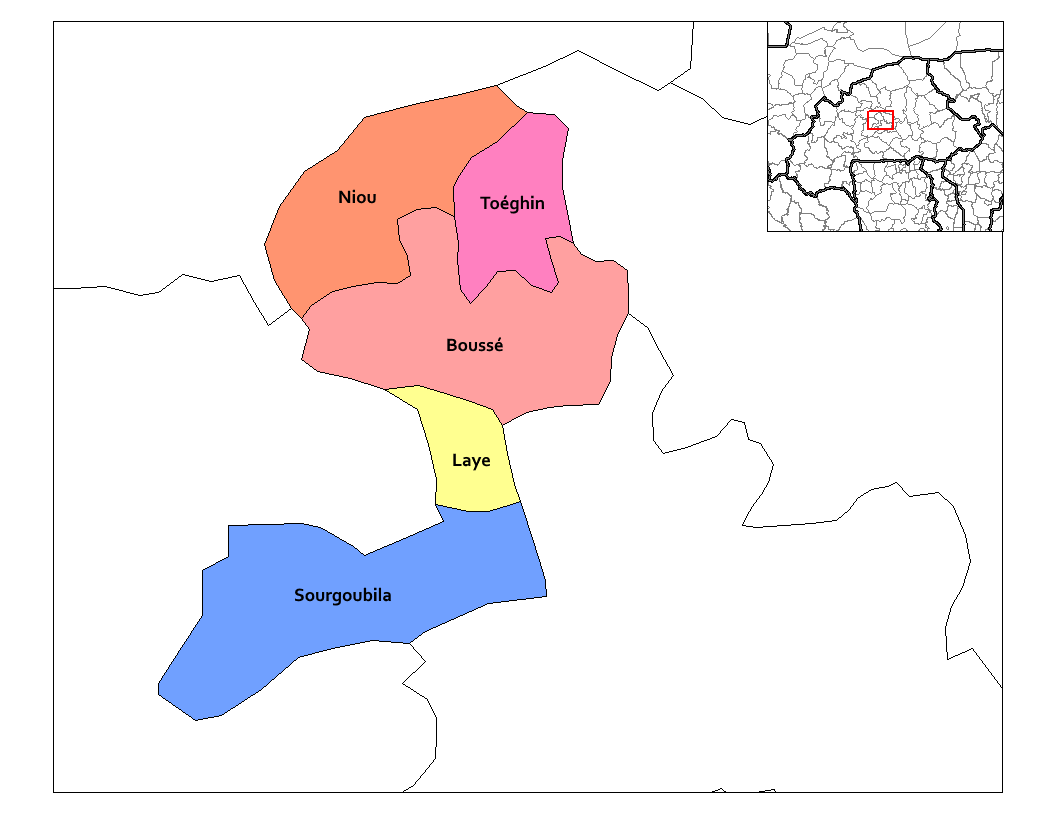 This map has been uploaded by Osiris fancy from to enable the Wikimedia Atlas of the World. Original uploader to was Rarelibra. Osiris fancy is not the creator of this map. Licensing information is below. Map of the departments of Kourweogo province in Burkina Faso. Created by Rarelibra 03:26, 30 September 2006 (UTC) for public domain use, using MapInfo Professional v8.5 and various mapping resources.